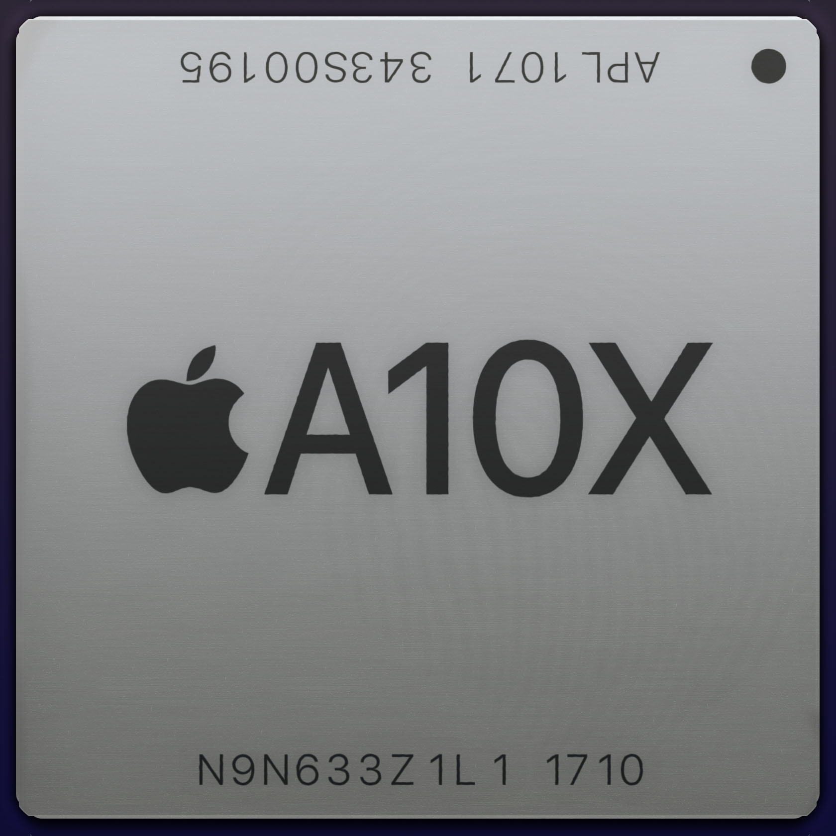 Illustration of the Apple A10X Fusion system-on-a-chip. Inspiration found in the broadcast during the WWDC 2017 keynote.